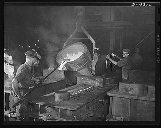 Photo taken by U.S. Government Worker in January, 1942. Production. Milling machines and machine castings. Pouring a large mold is a fiery sight. To the left, flames are shooting from an escape hole -- caused by gas generated by the contact of iron with the relatively cool sand, graphite, linseed oil and other ingredients involved in the mold structure. The man at the left is wielding a skimmer to hold back any impurities floating on the surface of the ladle iron